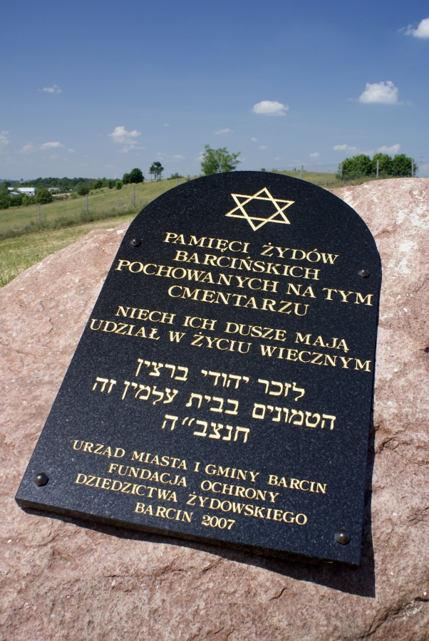 Jewish cemetery in Barcin.